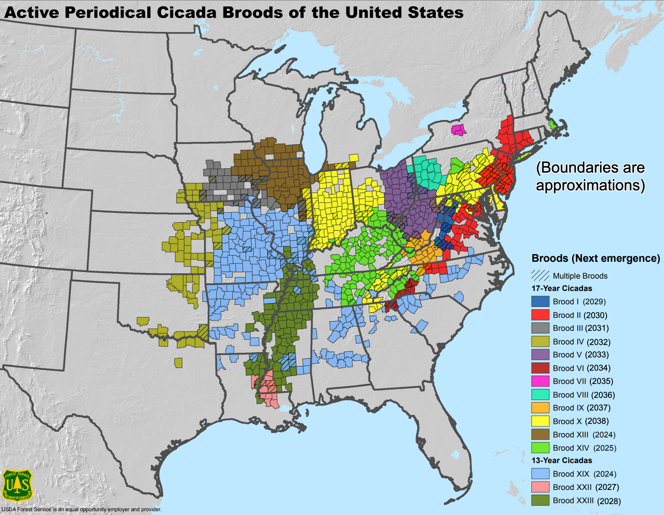 This is a USDA Forest Service map showing, county-by-county, where periodical cicada broods of the United States are located, and when they can next be expected to emerge